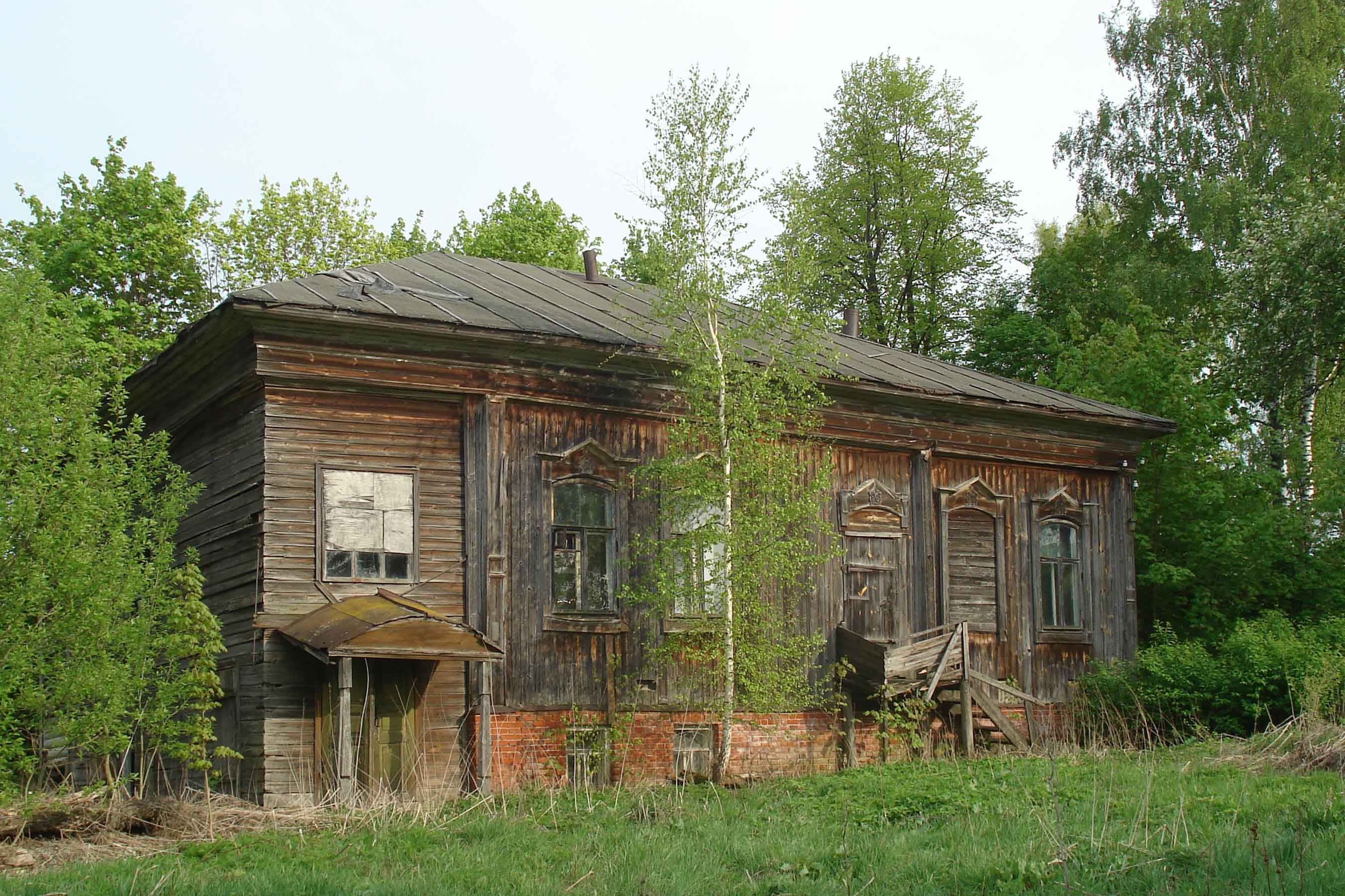 The old school in the village of Krasno. Nihegorodskaya oblast/